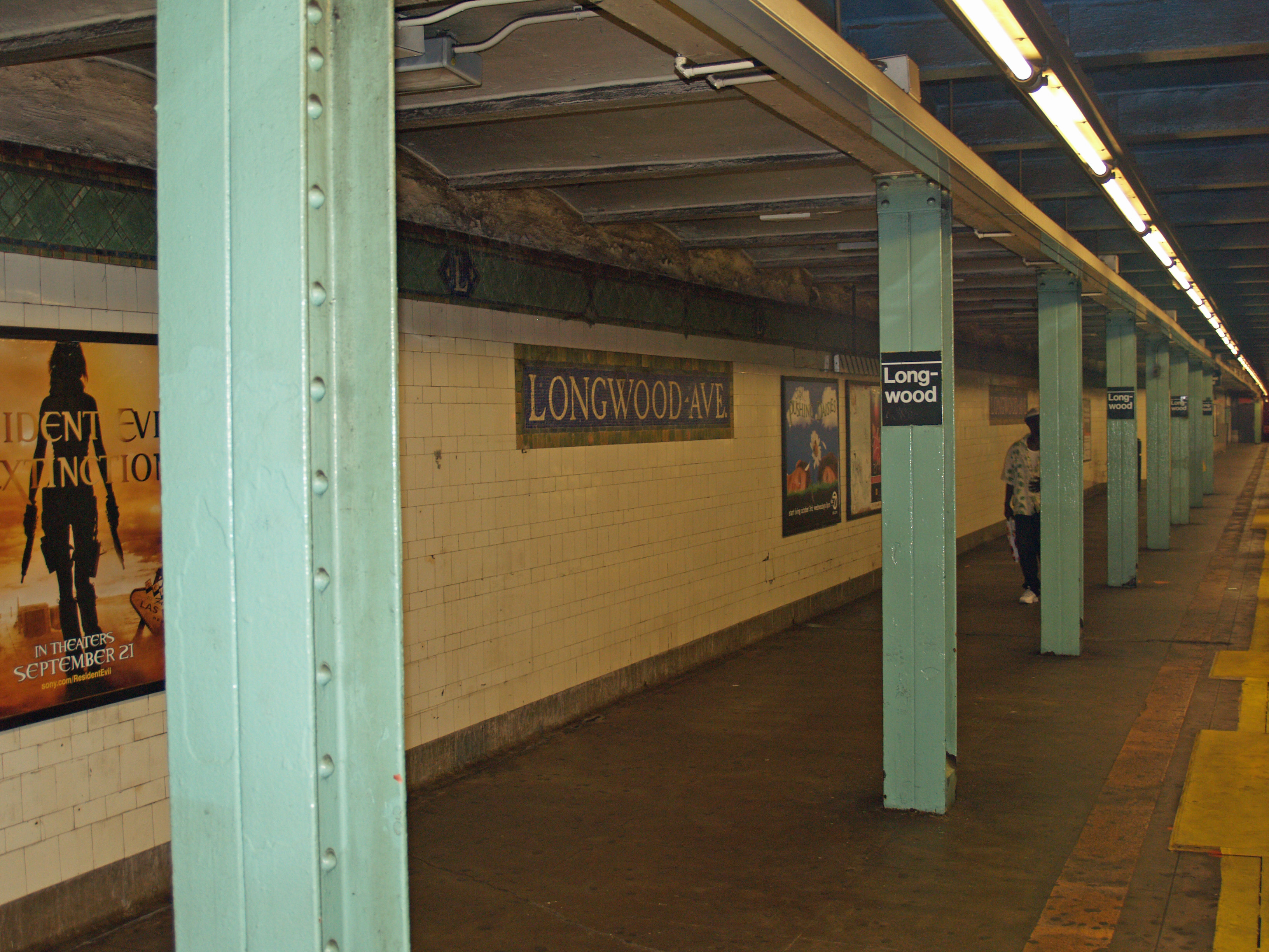 Longwood Avenue (IRT Pelham Line) by David Shankbone